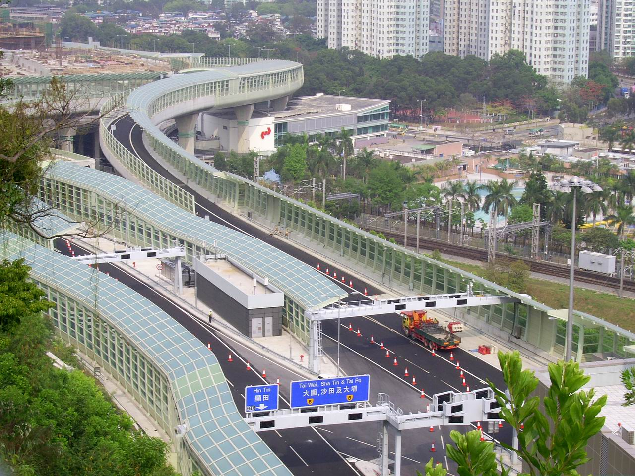 Tsing Sha Highway and Tai Wai Depot. Backgroung left: Tin Sam Village; background right: Carado Garden housing estate.